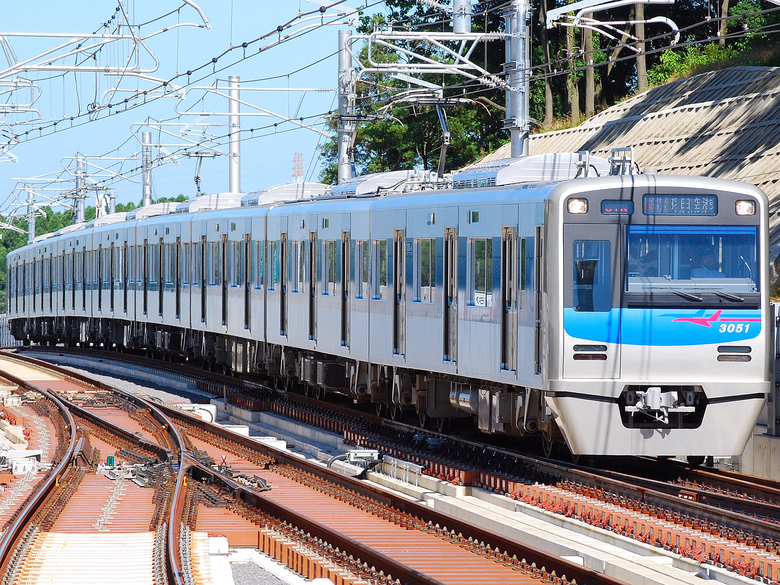 Keisei 3050 series (3000 series 7th batch) EMU at Narita Yukawa Station